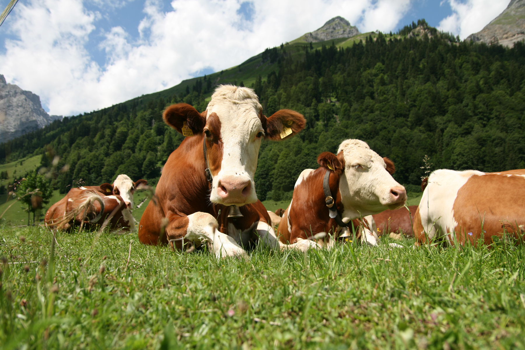 Description: Cattle, colloquially referred to as cows, are domesticated ungulates, a member of the subfamily Bovinae of the family Bovidae. As shown: Simmental is a brown-white cattle breed originating in the Simme valley in Switzerland